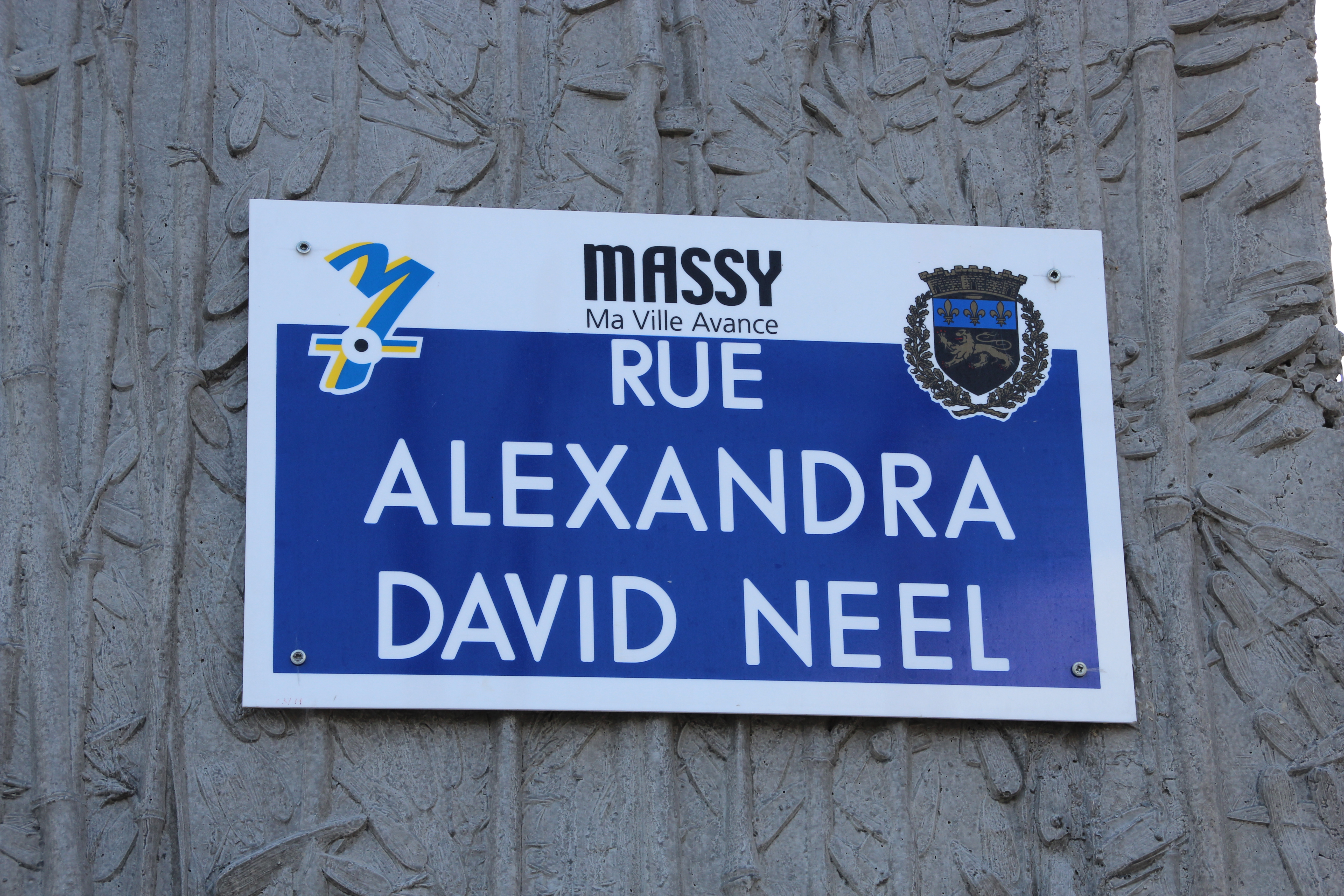 Alexandra David-Néel street in Massy, Essonne, France.